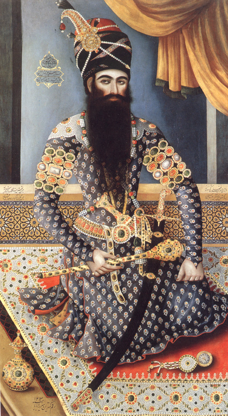 Fat‘ḥ-‘Alī Shāh Qājār, in 1798